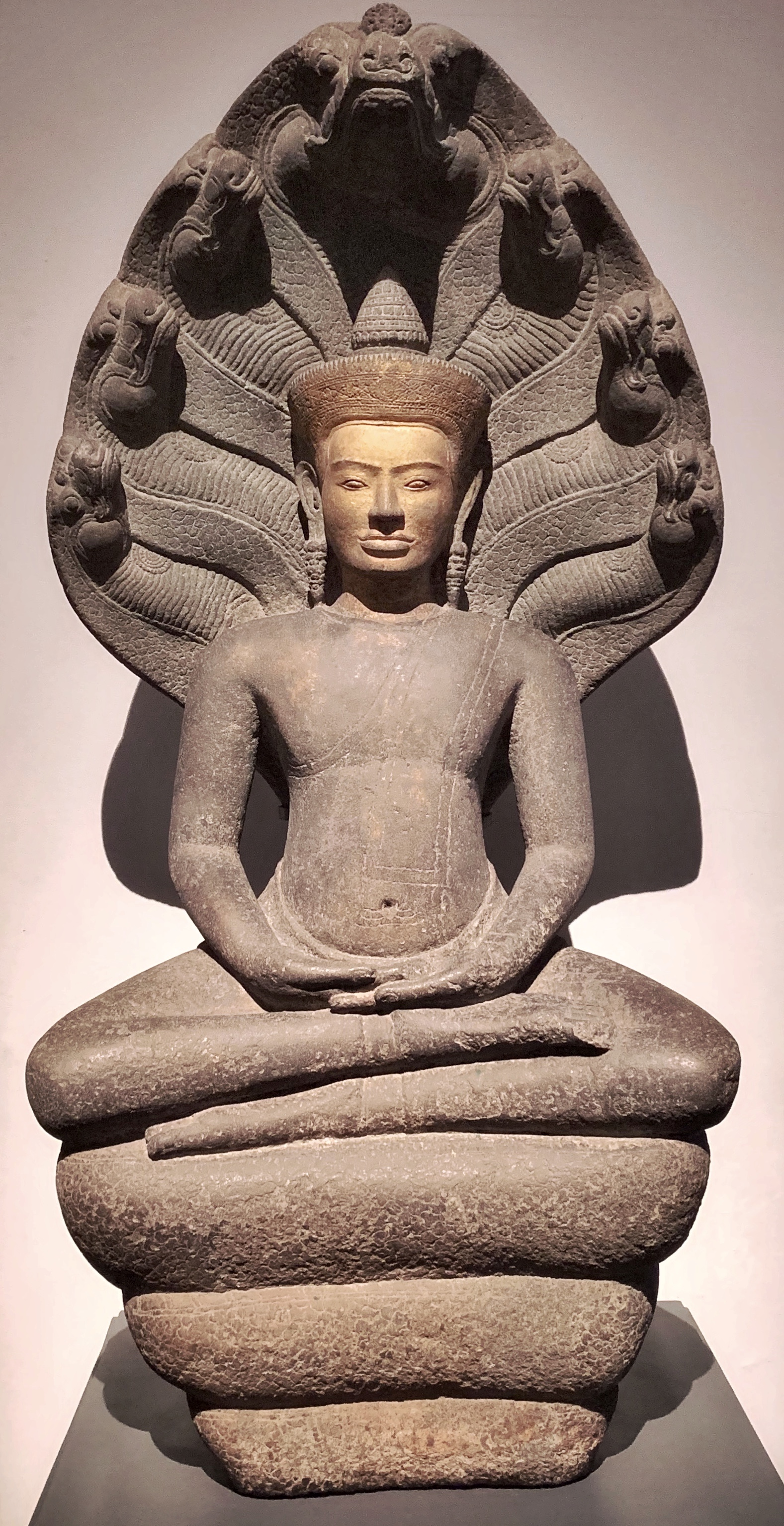 Mucalinda on the Gautama Buddha, Khmer Art Bangkok National Museum This file has been extracted from another file: Nāga Prok Buddha in Bangkok National Museum.jpg